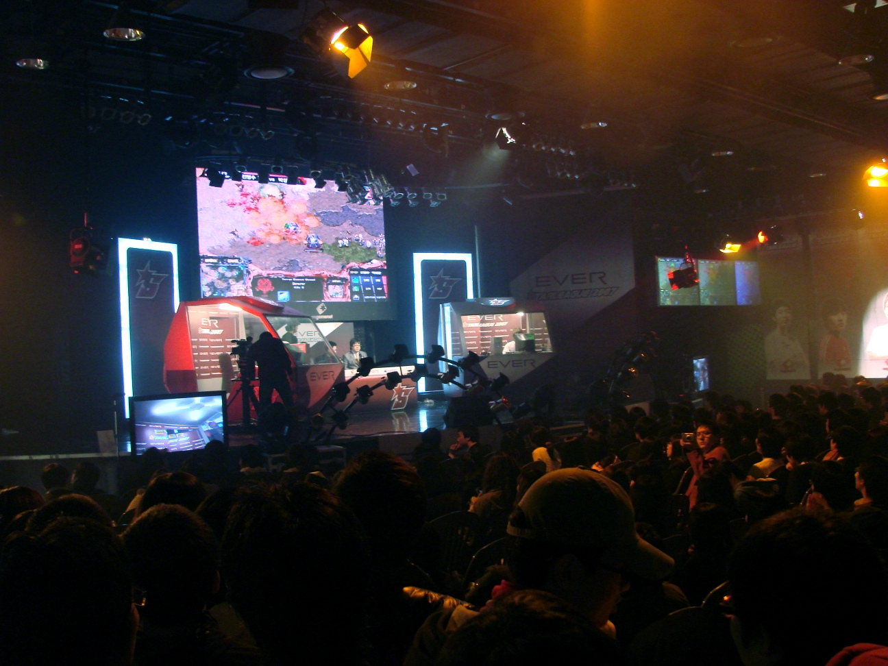 A picture of an E-sports Stadium on the 9th floor of the I'Park mall in Youngsan, Seoul, Republic of Korea. I took the photo my-self. The professional player HwaSin is visible in the picture.